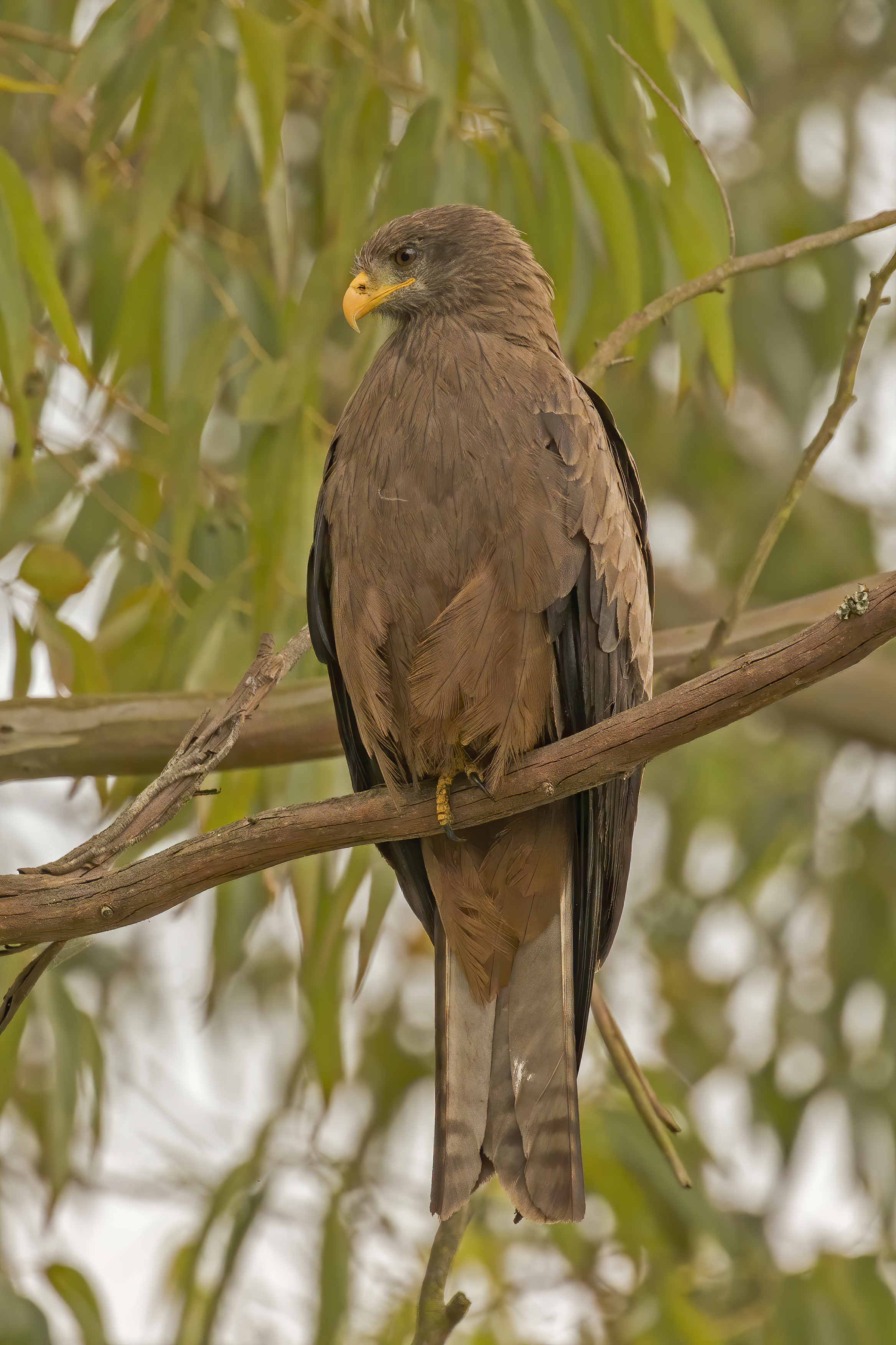 Yellow-billed Kite Milvus aegyptius parasitus, adult, Lake Bunyonyi, Uganda